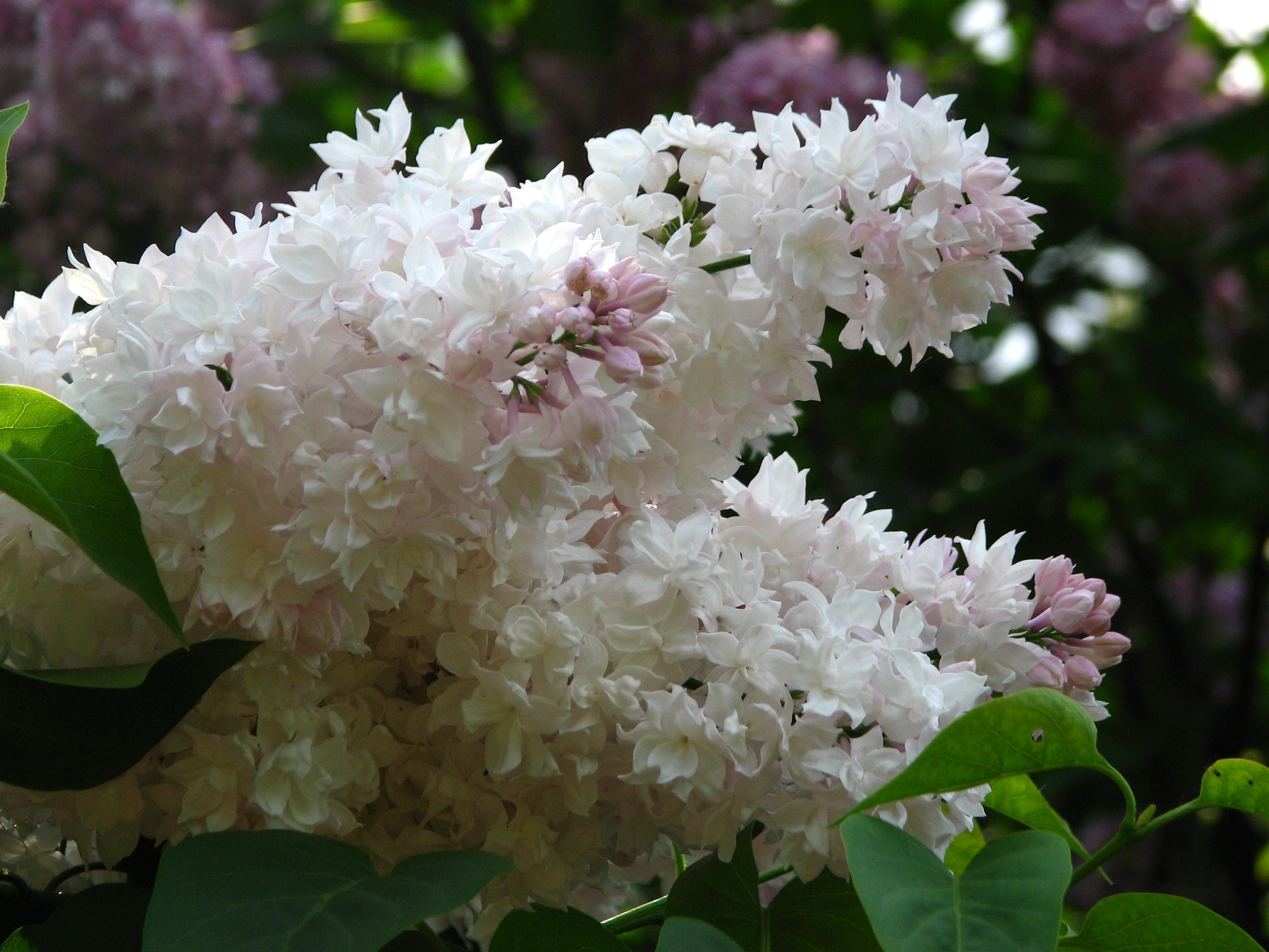 Syringa vulgaris 'Krasavitsa Moskvy'. Originator: Kolesnikov, 1947. From the collection of the Botanical Garden of Moscow State University (main area on the Sparrow Hills).